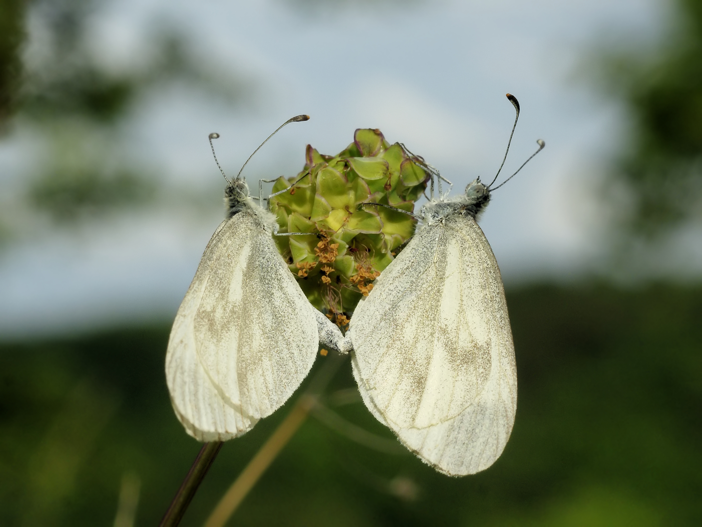 Wood White at Nismes, Belgium